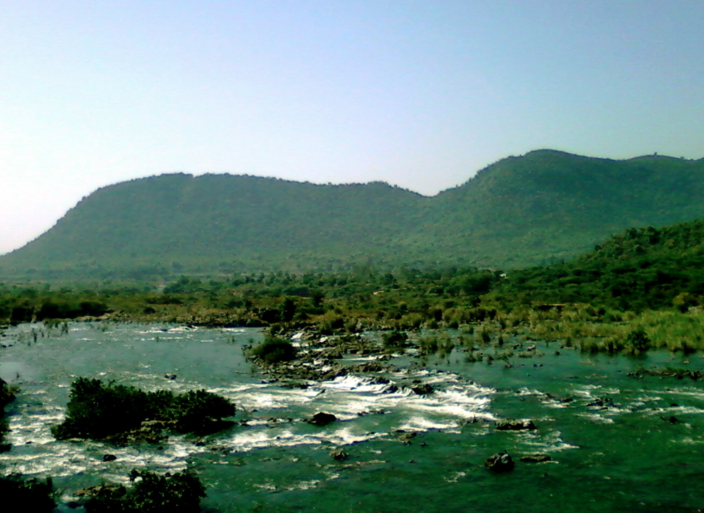 Yeleru river at Yeleswaram project site in East Godavari District, Andhra Pradesh